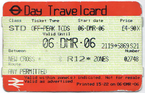 scan of Day Travelcard - Transport for London